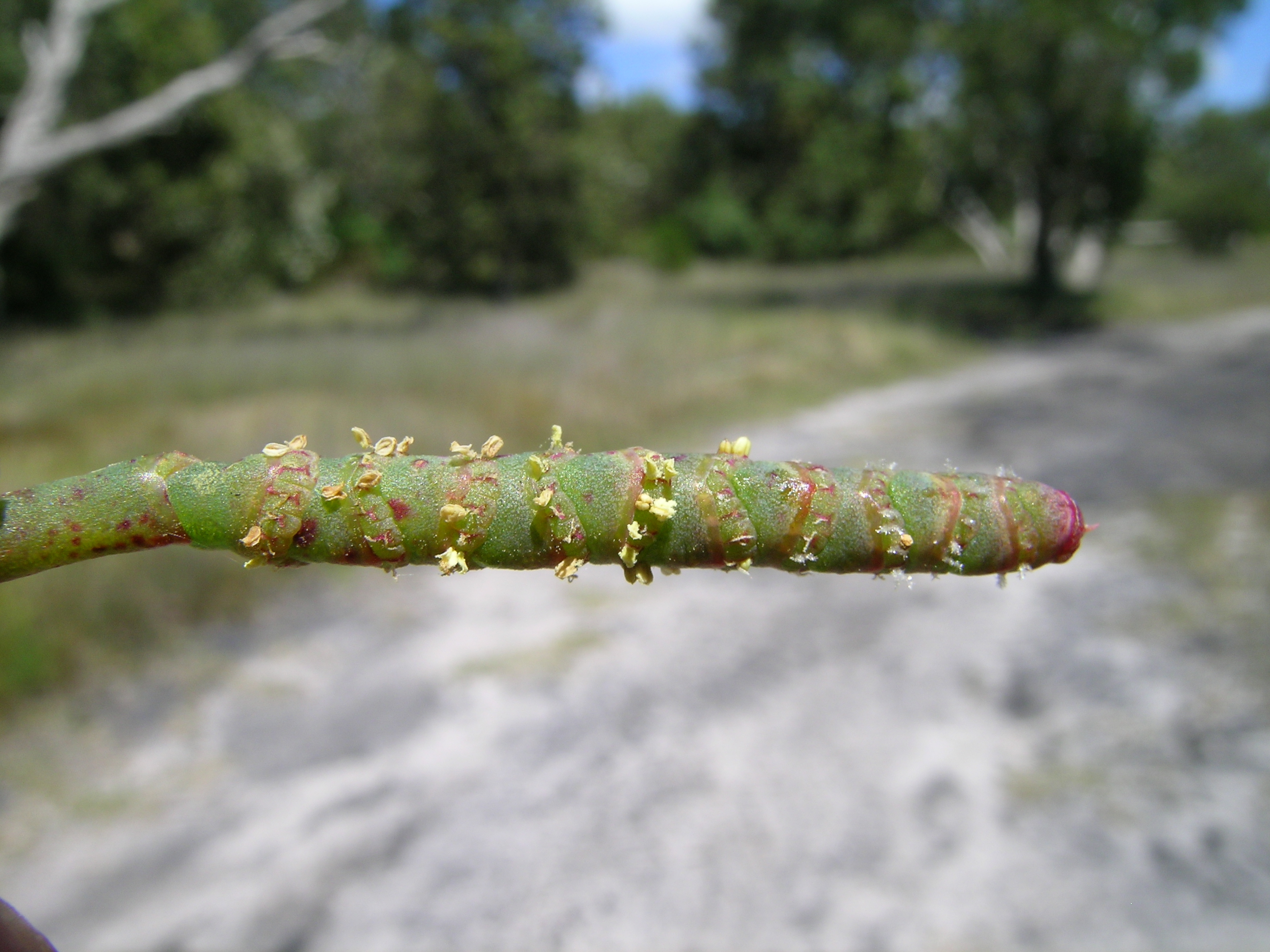 Native, warm season to yearlong green, perennial, succulent, mostly decumbent, spreading herbs to 30 cm tall and rooting at the nodes. Flowerheads are terminal and spike-like, with 5–9-flowered clusters in the axil of leaf-like bracts. Flowers are inconspicuous, bisexual, but occasionally functionally unisexual, 3- or 4-lobed and membranous. The fruiting perianth becomes dry and falls with the fruit. Flowering occurs over most of year. Mostly found in coastal areas and frequently in habitats periodically inundated by salt water. May form large patches. Has limited grazing value as it does not readily recover from defoliation, trampling or fire. Forage energy and crude protein levels are moderate.